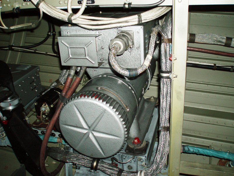 Soviet airborne motor-generator.